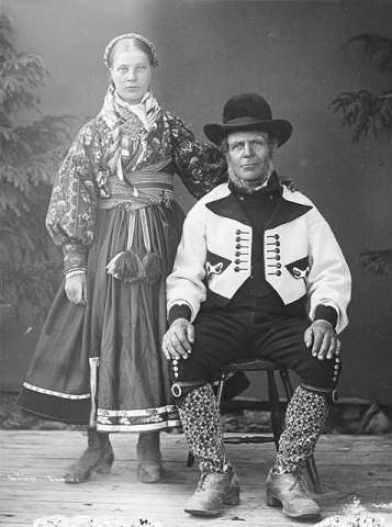 People from eastern Telemark, ca. 1880-90